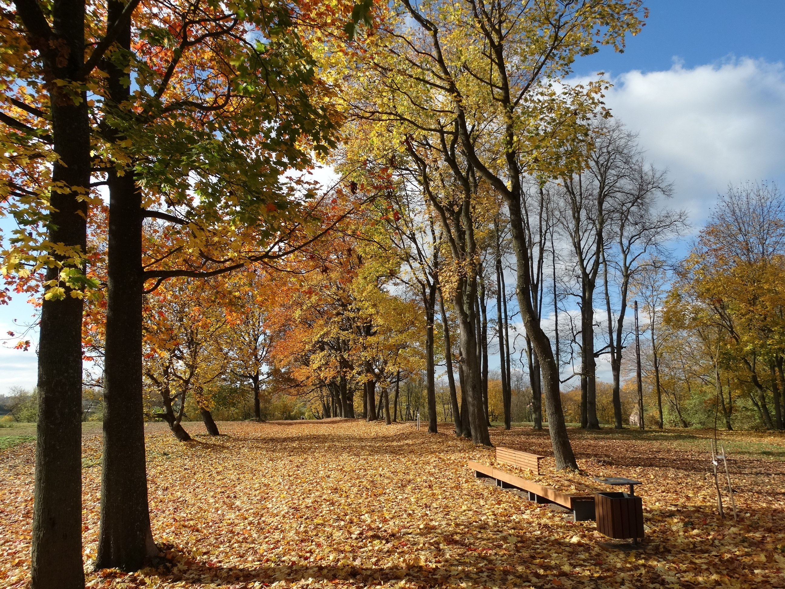 Kvietiškis manor park, Marijampolė, Lithuania